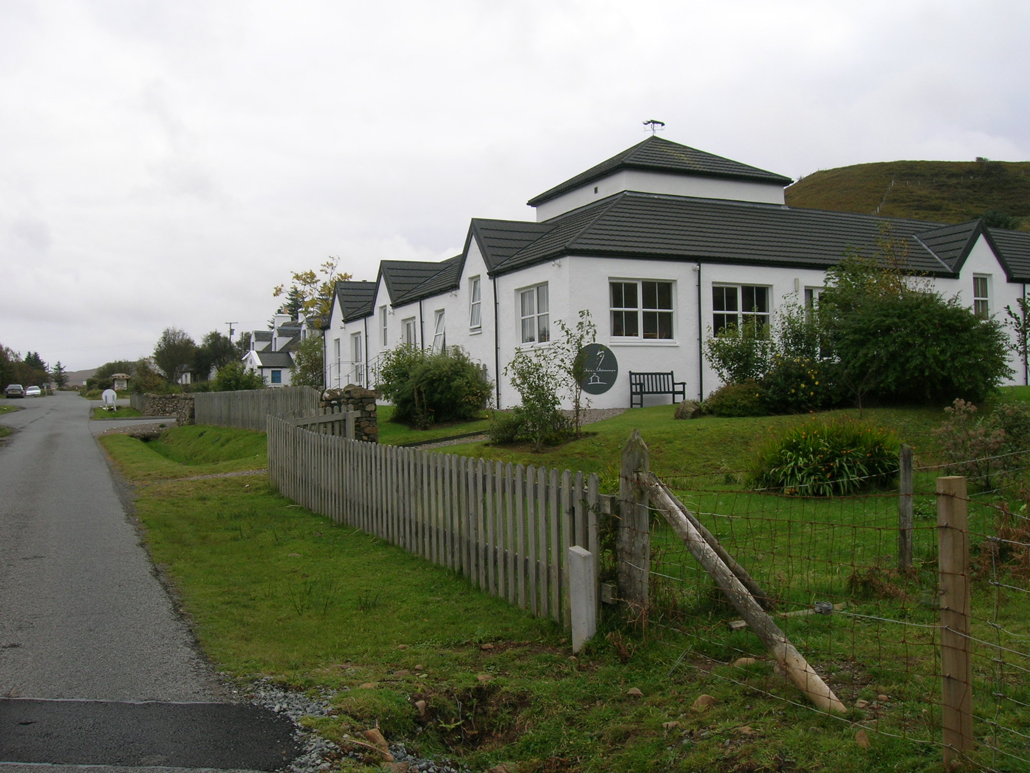 Three Chimneys Restaurant and House Over-By. Looking southeast on the B884